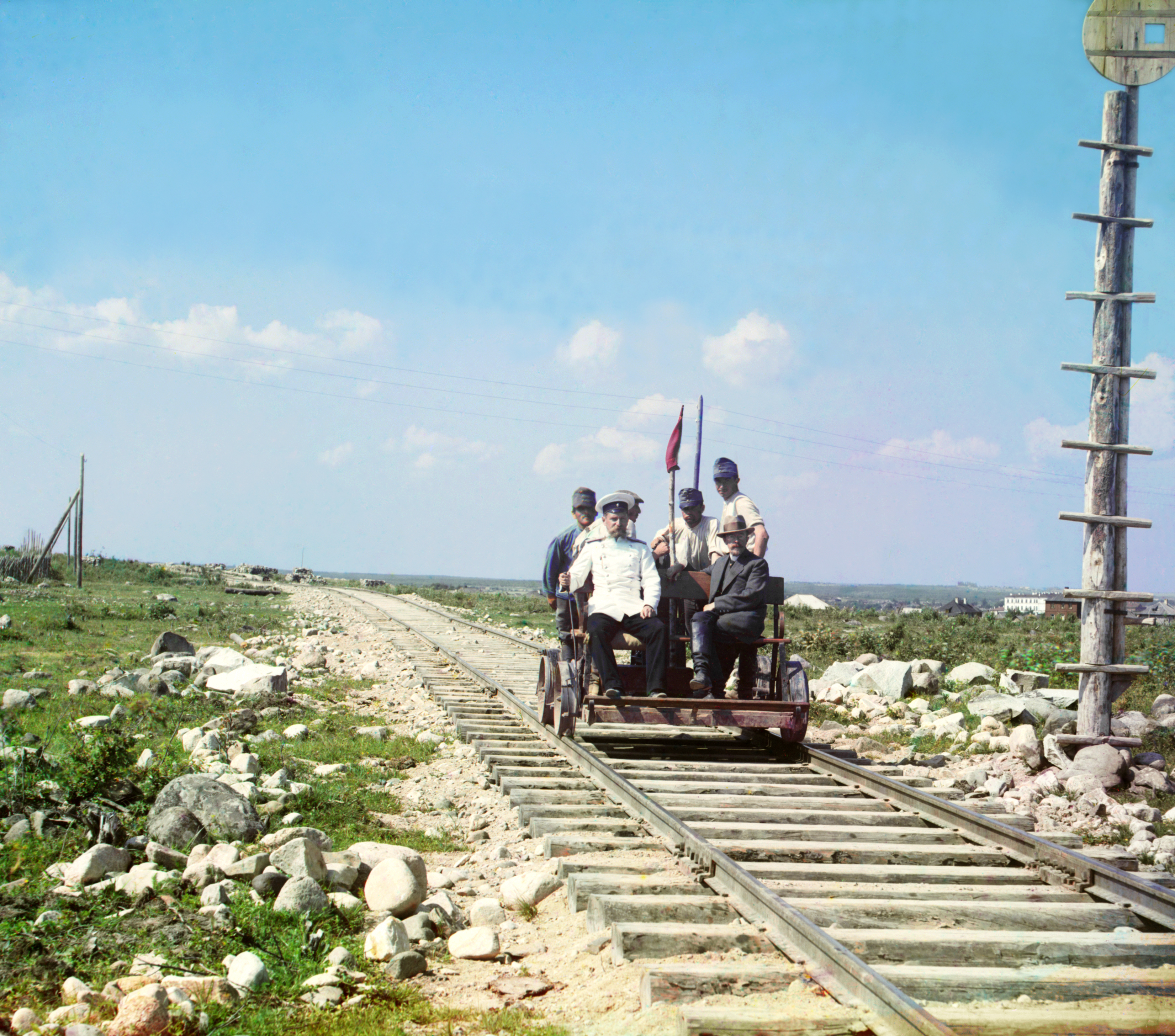 Original Description: On the handcar outside Petrozavodsk on the Murmansk railway.Handcar riding along the Murmansk railroad, on the shore of Lake Onega.